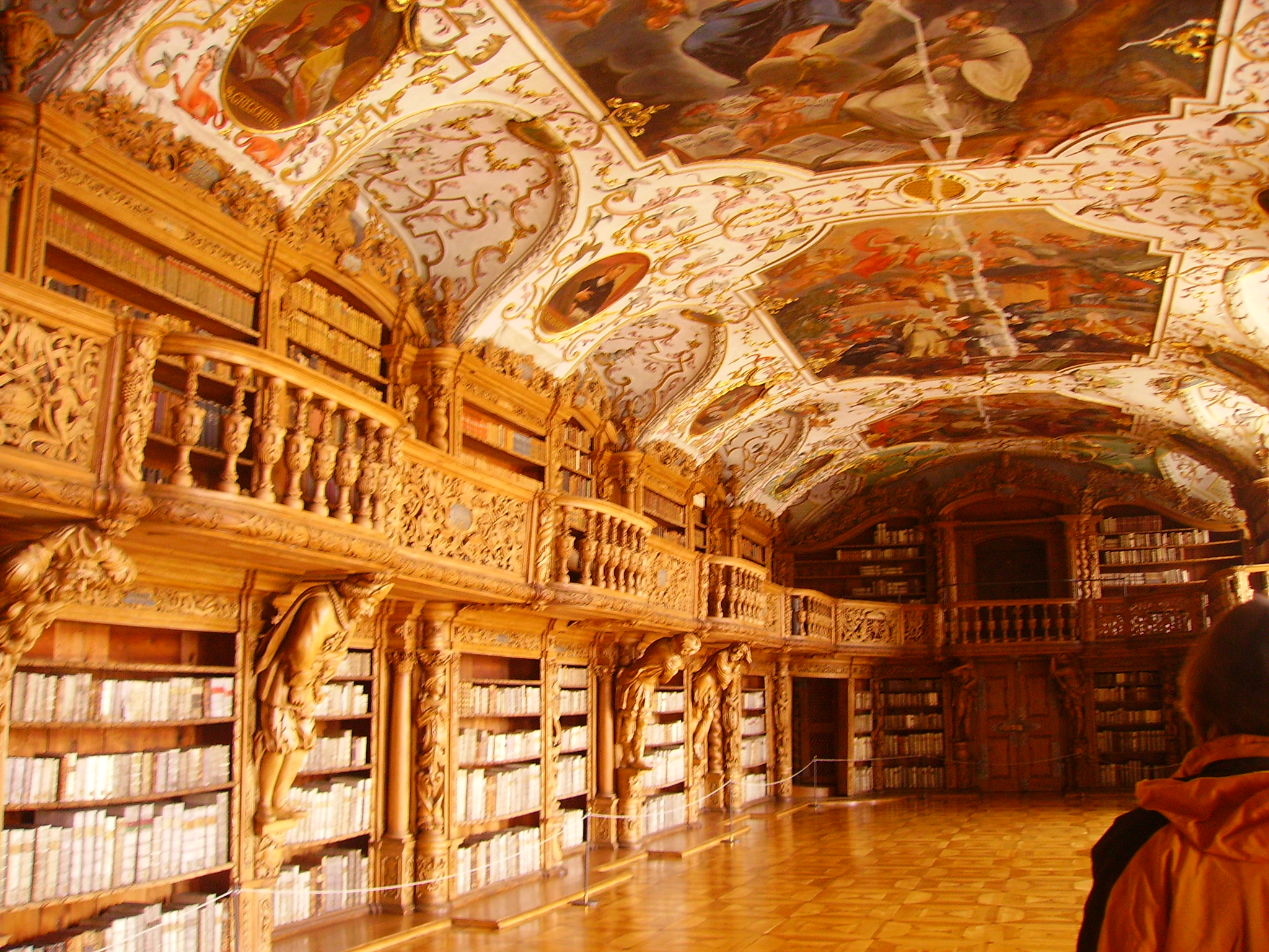 Waldsassen Monastery Library, Wladsassen